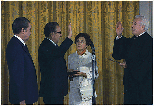 Henry Kissinger being sworn in as Secretary of State in the USA. Left to right: President Richard M. Nixon, Henry Kissinger, Paula Kissinger, Unidentified.